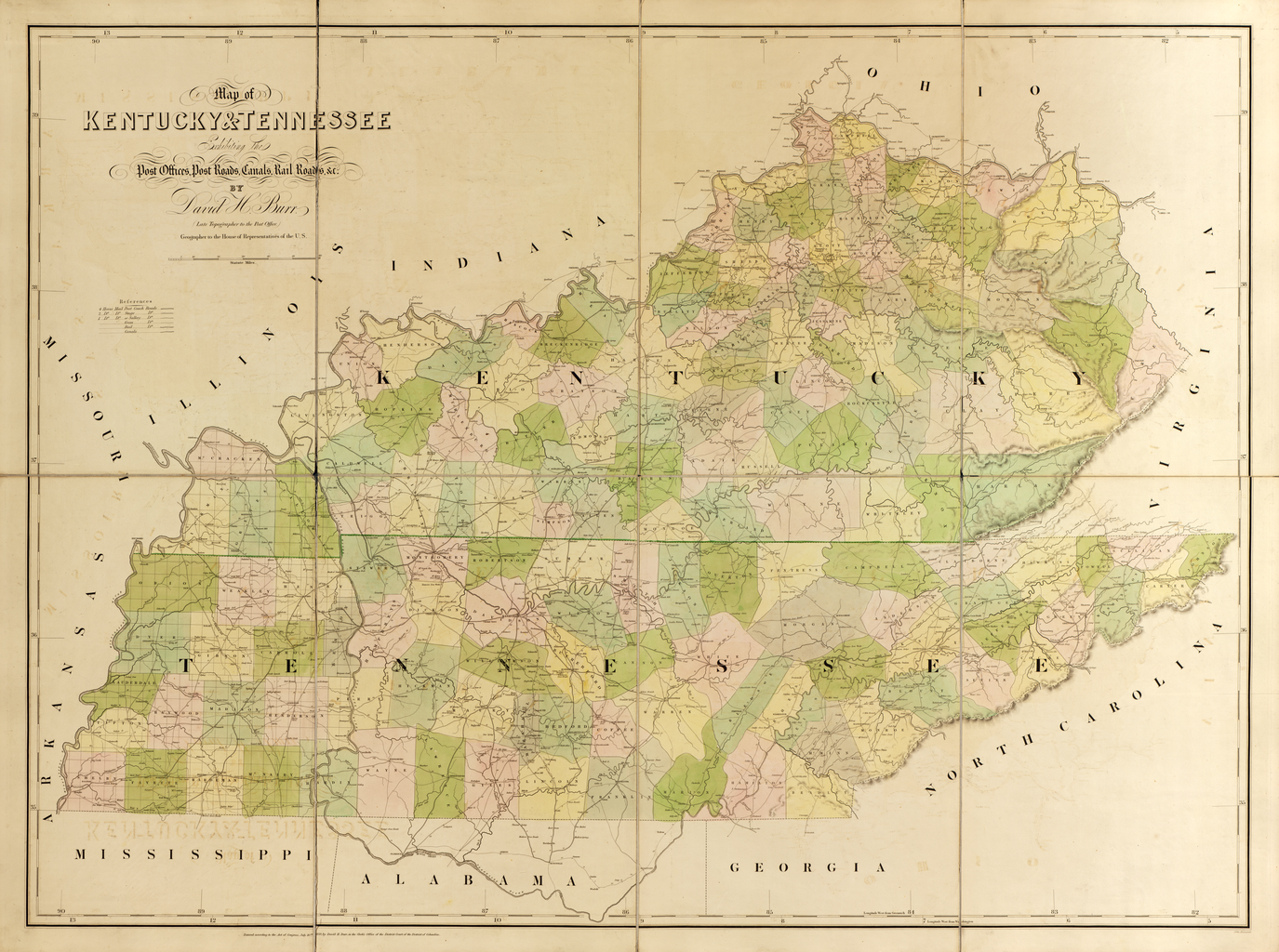 Map of Kentucky and Tennessee by David H. Burr, 1839.